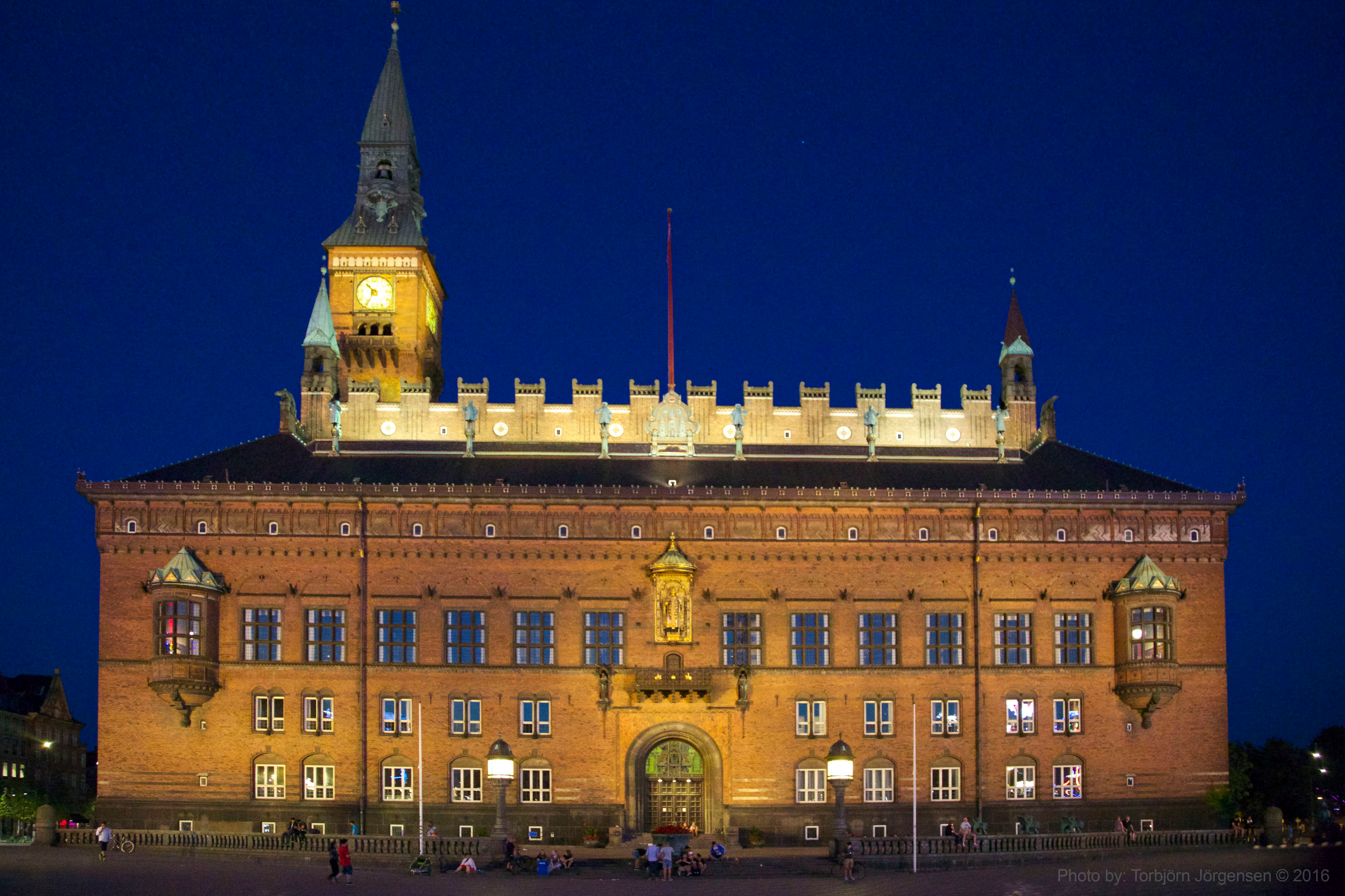 Copenhagen City Hall